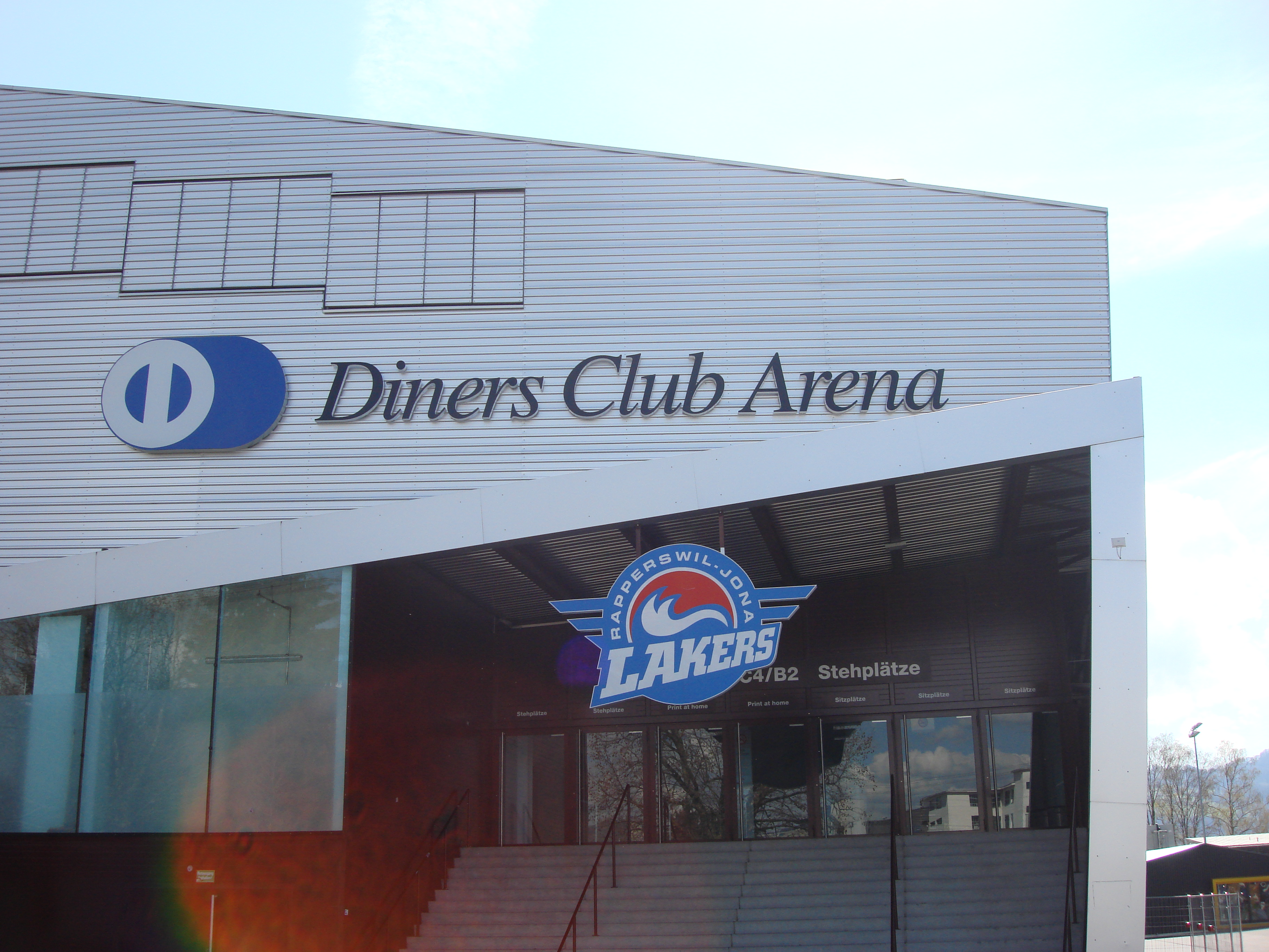 The 'Diners Club Arena in Rapperswil, Switzerland with the Rapperswil-Jona Lakers team logo